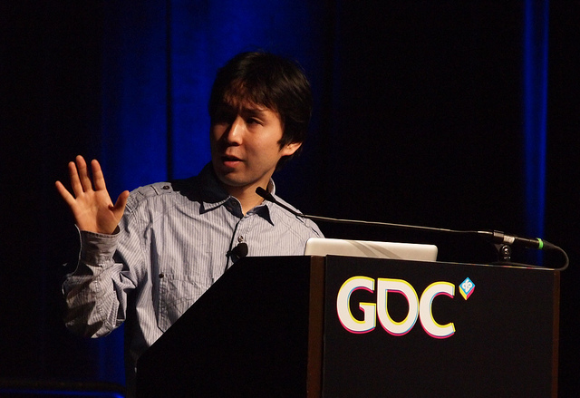 Daisuke "Pixel" Amaya speaking at Game Developers Conference.